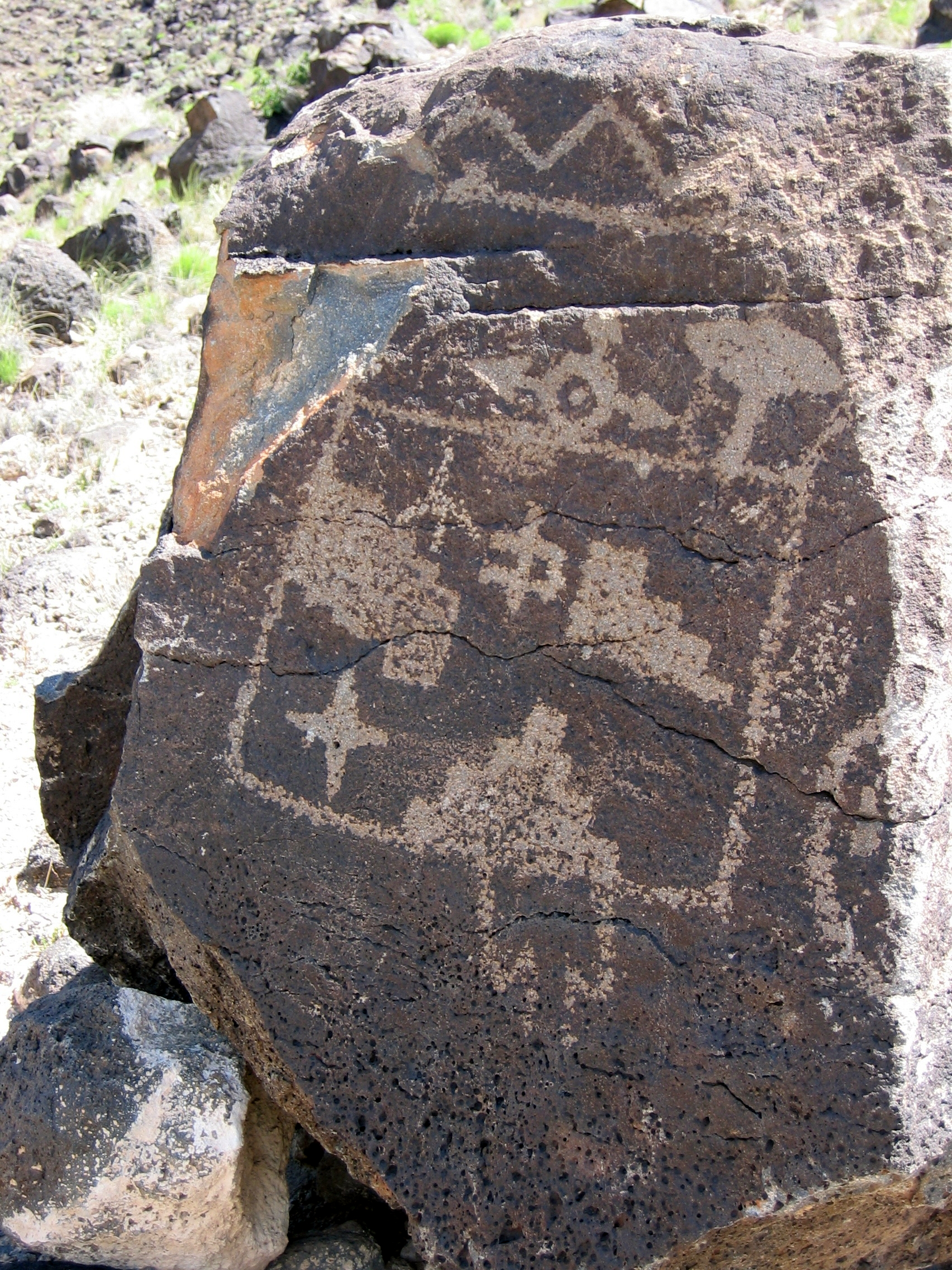 Petroglyphs on a rock in Petroglyph National Monument, outside Albuquerque, NM. The images show several symbols related to sky and weather, such as cloud terraces, stars and flashes.